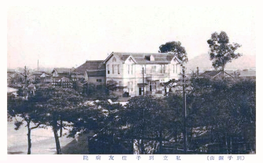 Sumitomo Bessi Hospital in Niihama, Ehime pref., Japan.